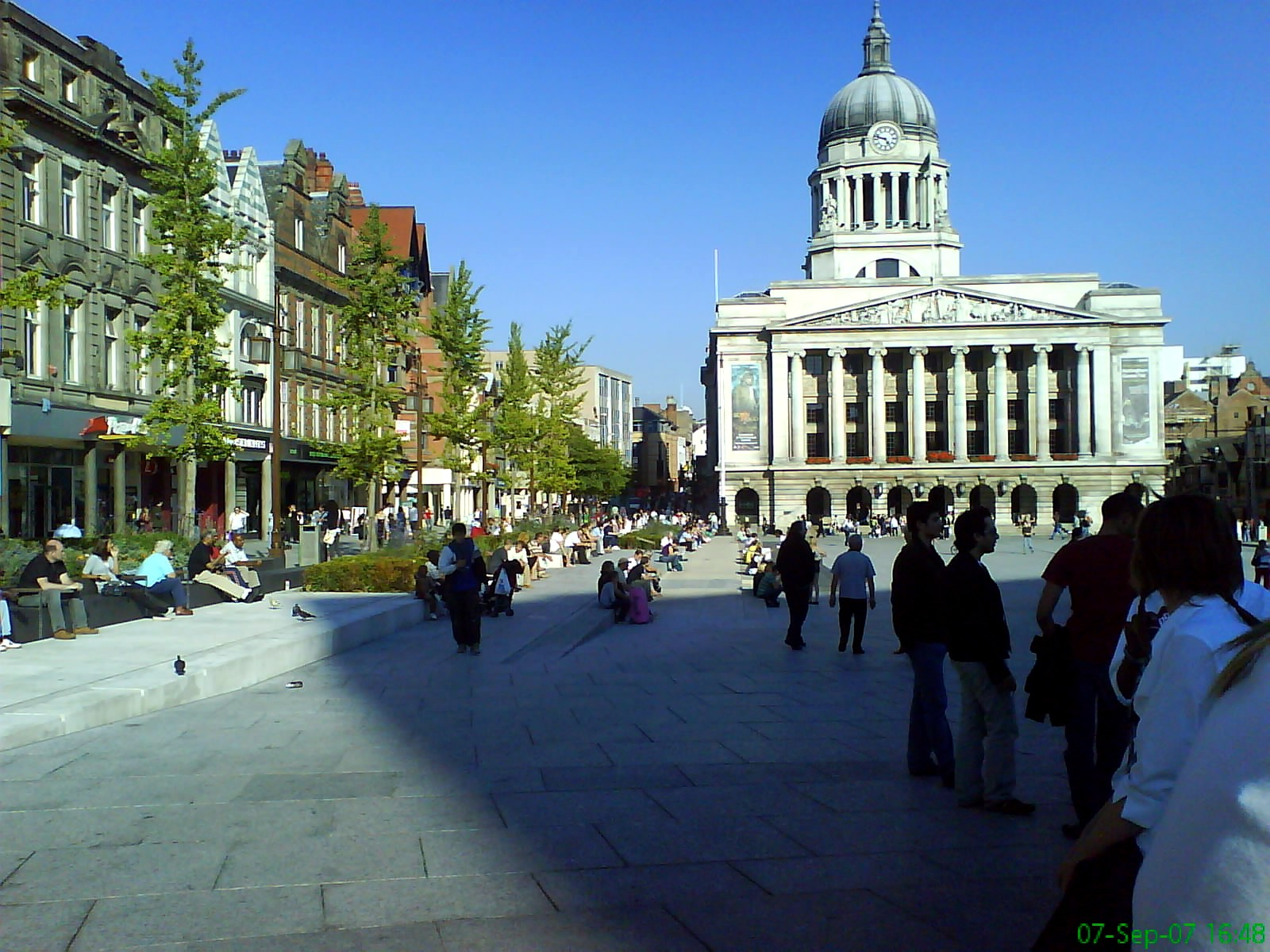 Nottingham Council House from the square.